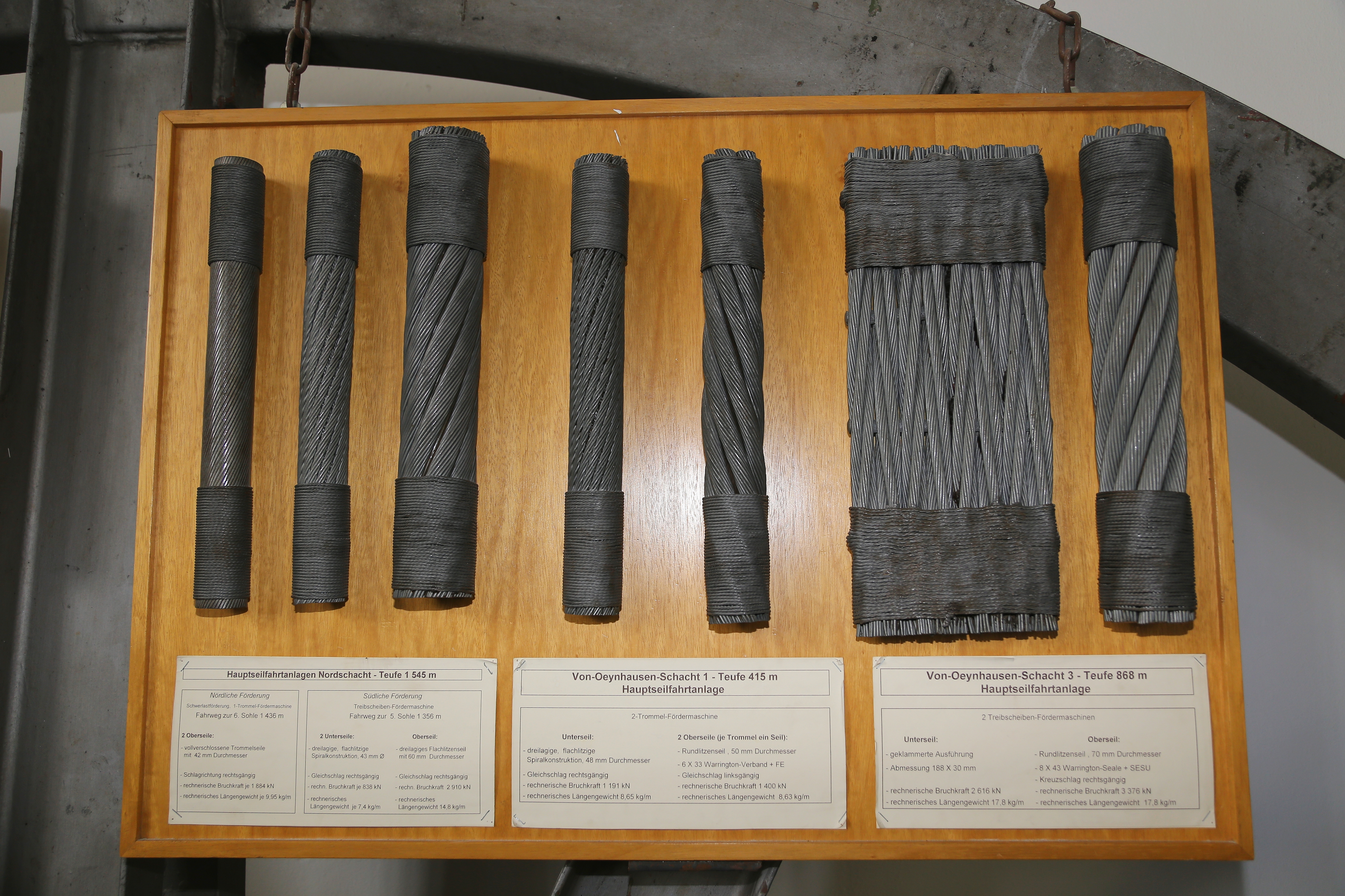 Examples of steel wire ropes on display in the Ibbenbüren Mining Museum (Bergbaumuseum Ibbenbüren) in Ibbenbüren, Kreis Steinfurt, North Rhine-Westphalia, Germany. Picture taken with permission.